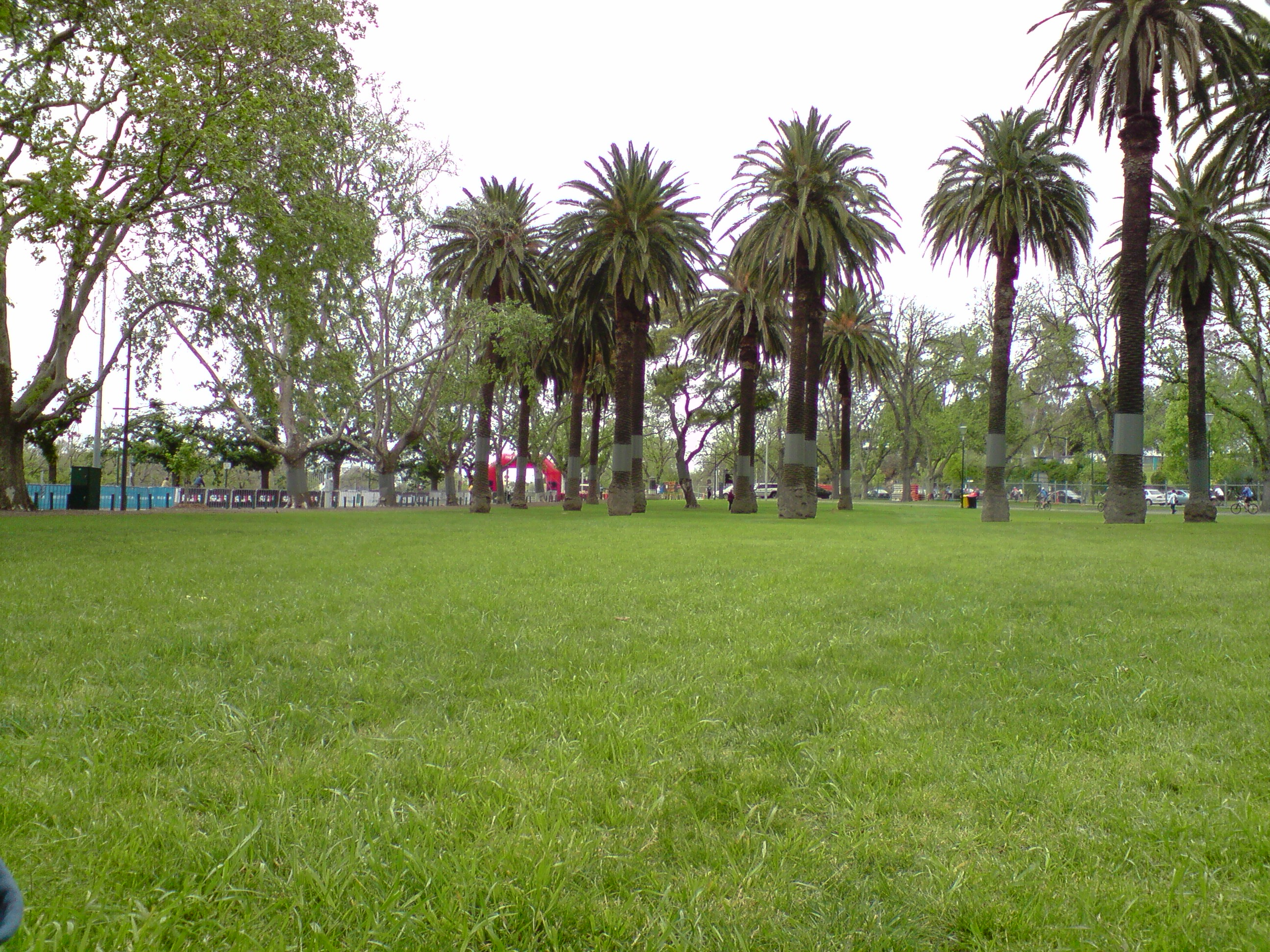 Alexander Gardens on the day of the "Around The Bay In A Day" race for 2009.